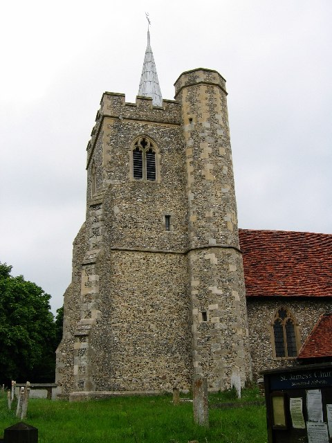 St. James's Church - Stanstead Abbotts, Herts. Sited a mile away from its village, St James’ was the parish church for at least 700 years until St Andrew’s, nearer the centre, replaced it in 1882. Picturesque on its hilltop and largely ignored by the Victorians, it is a marvellously atmospheric church. The building dates from the 12th to the 16th centuries and the 15th century timbered porch is notable. Inside are unusually high Georgian box pews, a three-decker pulpit, texts, hatchments, old glass and monuments of many periods.